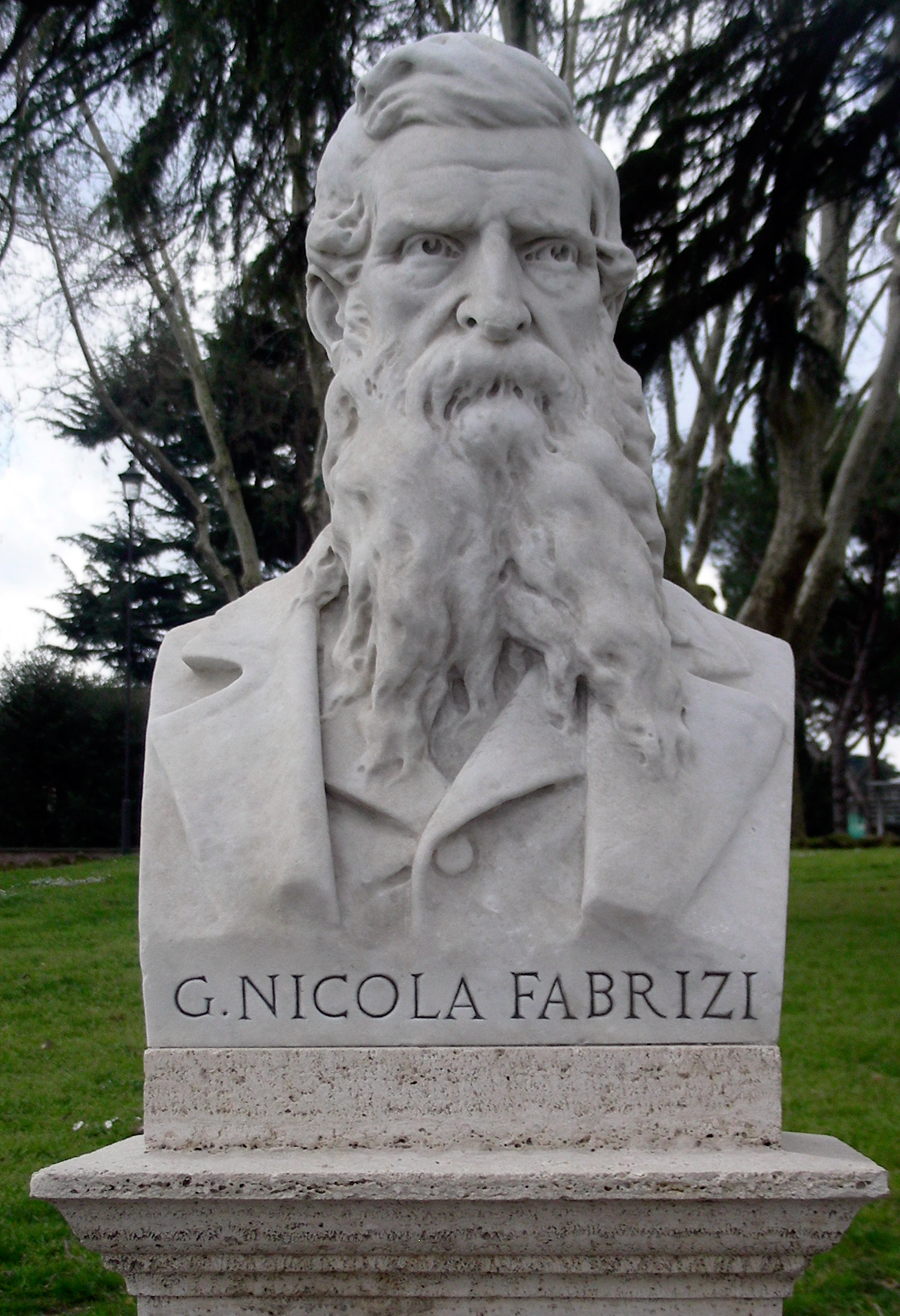 Rome, park of Gianicolo, bust of Nicola Fabrizi (1804-1885), by Antonio Buttinelli (1886)